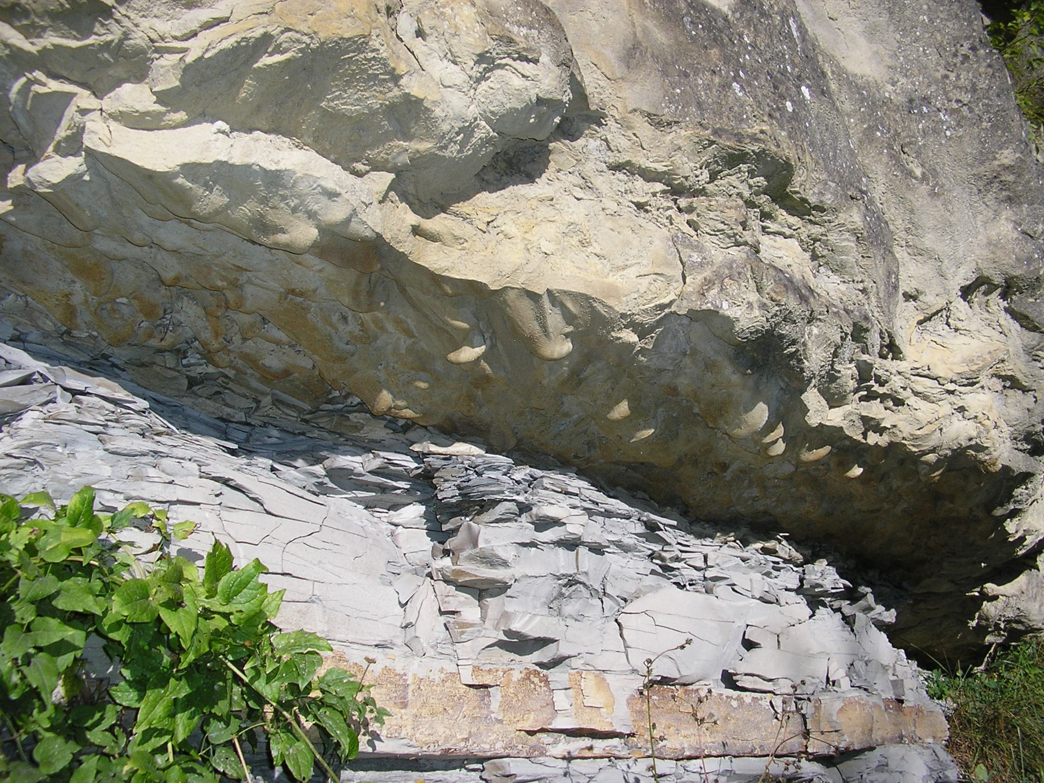 Flute casts at the base of a thick turbidite sandstone, Laga Basin, Italy